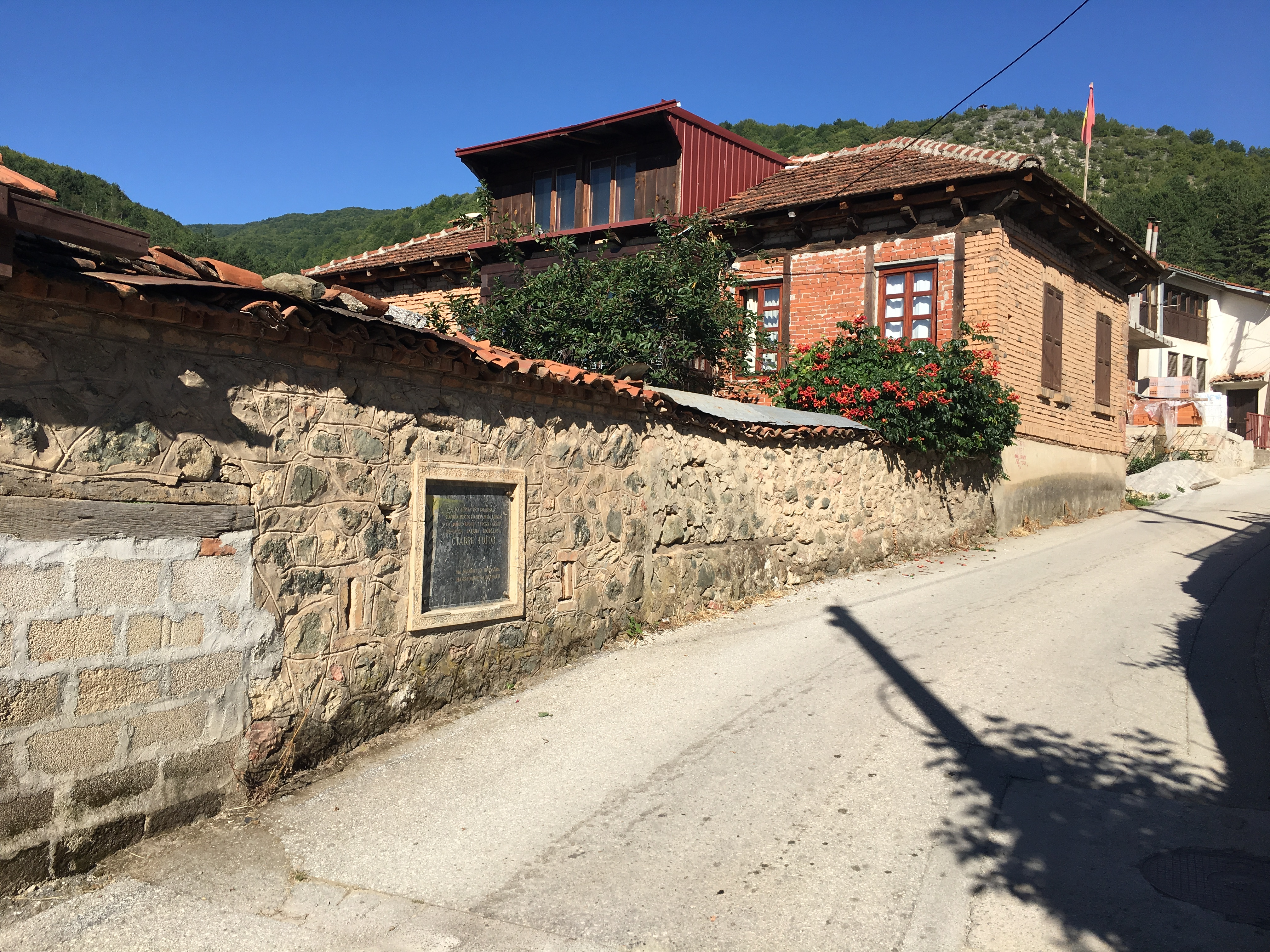 A street in the village of Vevčani